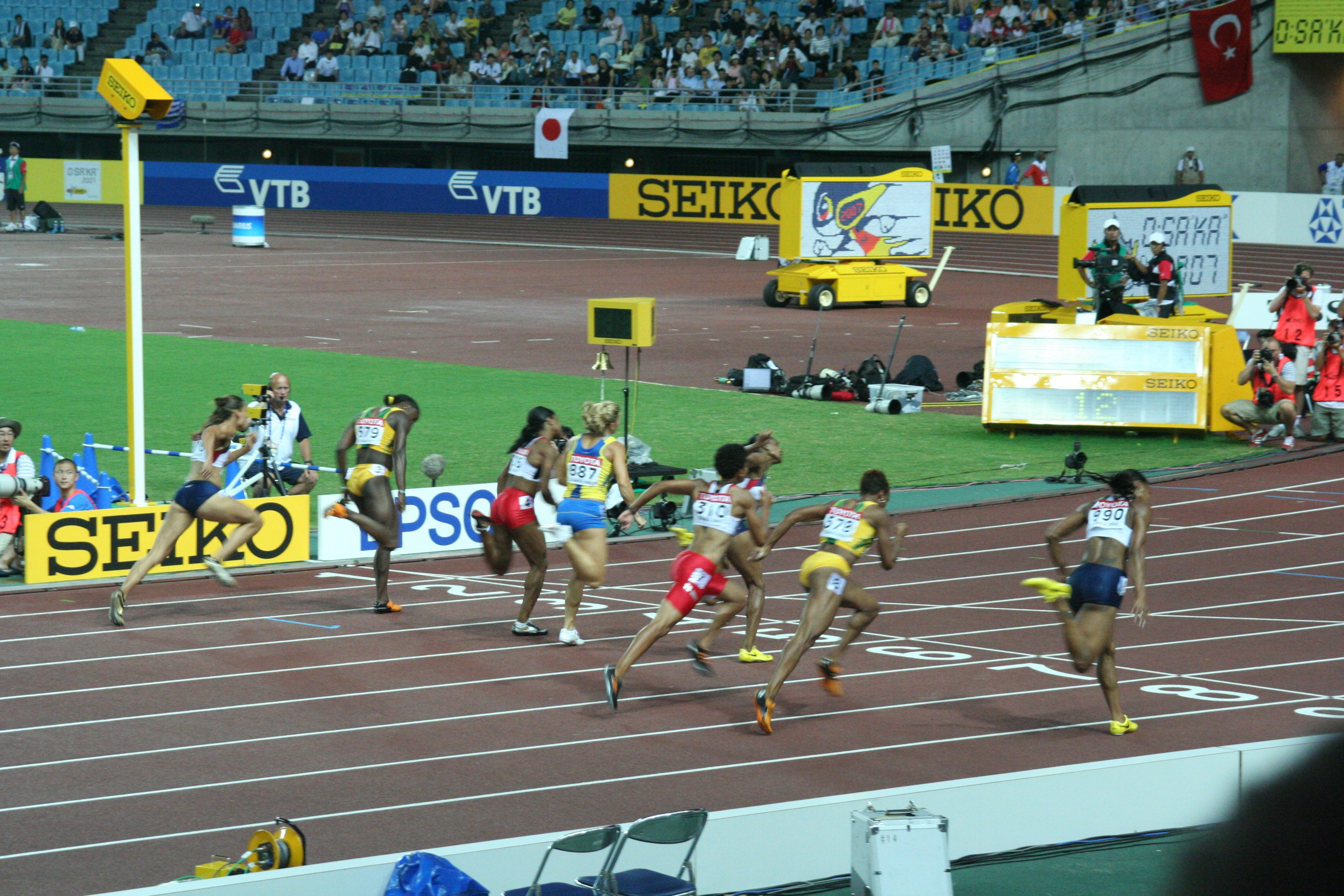 World Athletics Championships 2007 in Osaka - at the finishing line of the women's 100 metre's hurdles final: LoLo Jones, Delloreen Ennis-London, Perdita Felicien, Susanna Kallur, Angela Whyte, Michelle Perry, Vonette Dixon, Ginnie Crawford